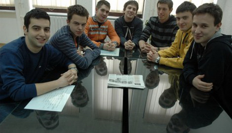 Students that received full scholarships from Trinity College, University of Cambridge: Luka Milićević, Dušan Milijančević, Ognjen Ivković, Nikola Mrkšić, Mihajlo Cekić, Aleksandar Vasiljković, Dušan Perović. All students are from d-division (4th grade, division D) of Mathematical Gymnasium Belgrade. Trinity College awards not more than two full scholarships for one world region (i.e. Europe, North America, etc.). Every year students of Mathematical Gymnasium win scholarships over this quota. This success was the main reason for director of Cambridge Commonwealth Trust, mr Michael O'Sullivan, to visit Mathematical Gymnasium Belgrade in June 2010 (June 21, 2010).